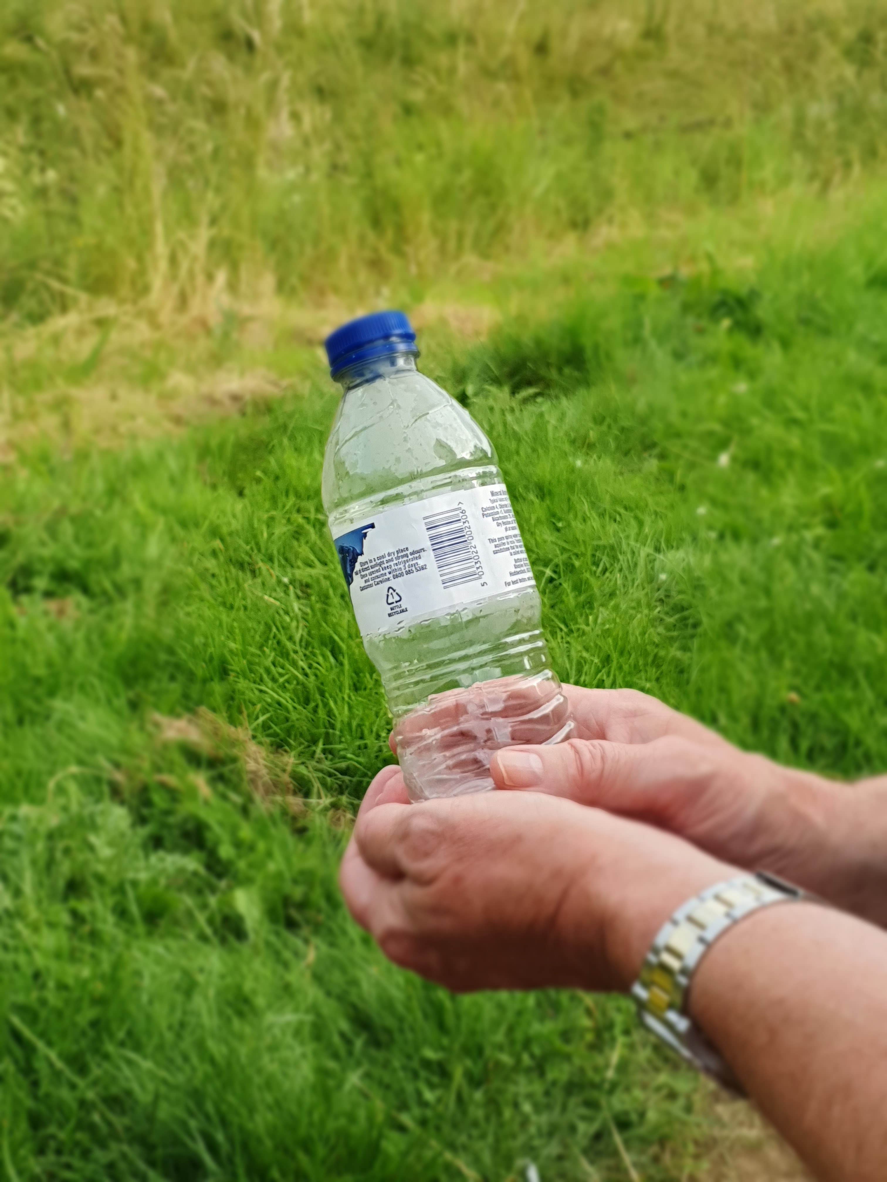 Bottled water being held